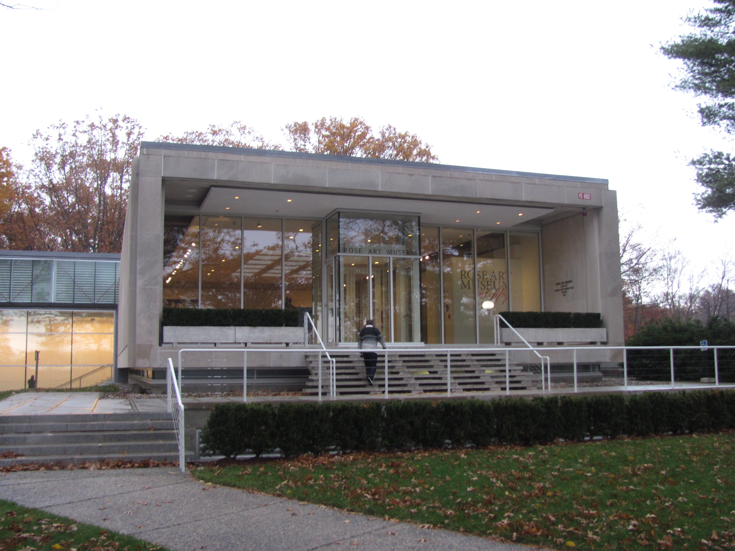 Rose Art Museum, Brandeis University, Waltham Massachusetts